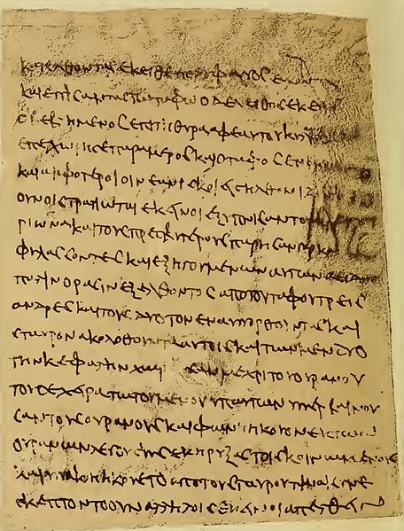 Gospel of Peter, the first of the non-canonical gospels to be rediscovered in 1886.